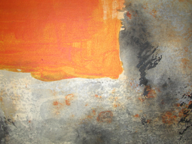 Small detail of acrylic painting on paper "Castling" by Frederico Penteado. Red/orange area is opaque as in oil paint. Grey/black areas resemble the texture of watercolour